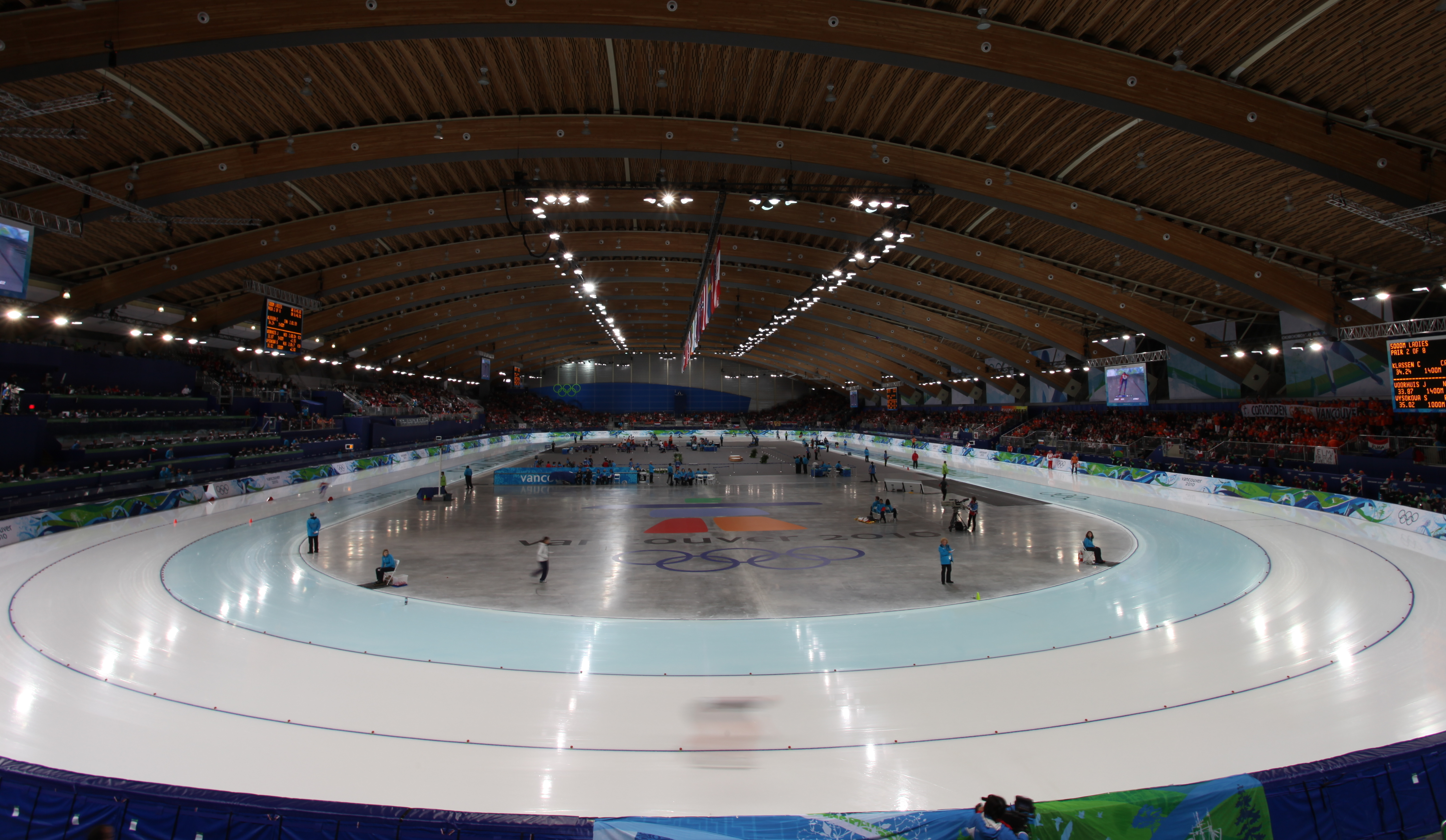 Richmond Olympic Oval - Women's 5000 meter finals at Vancouver 2010 Olympics